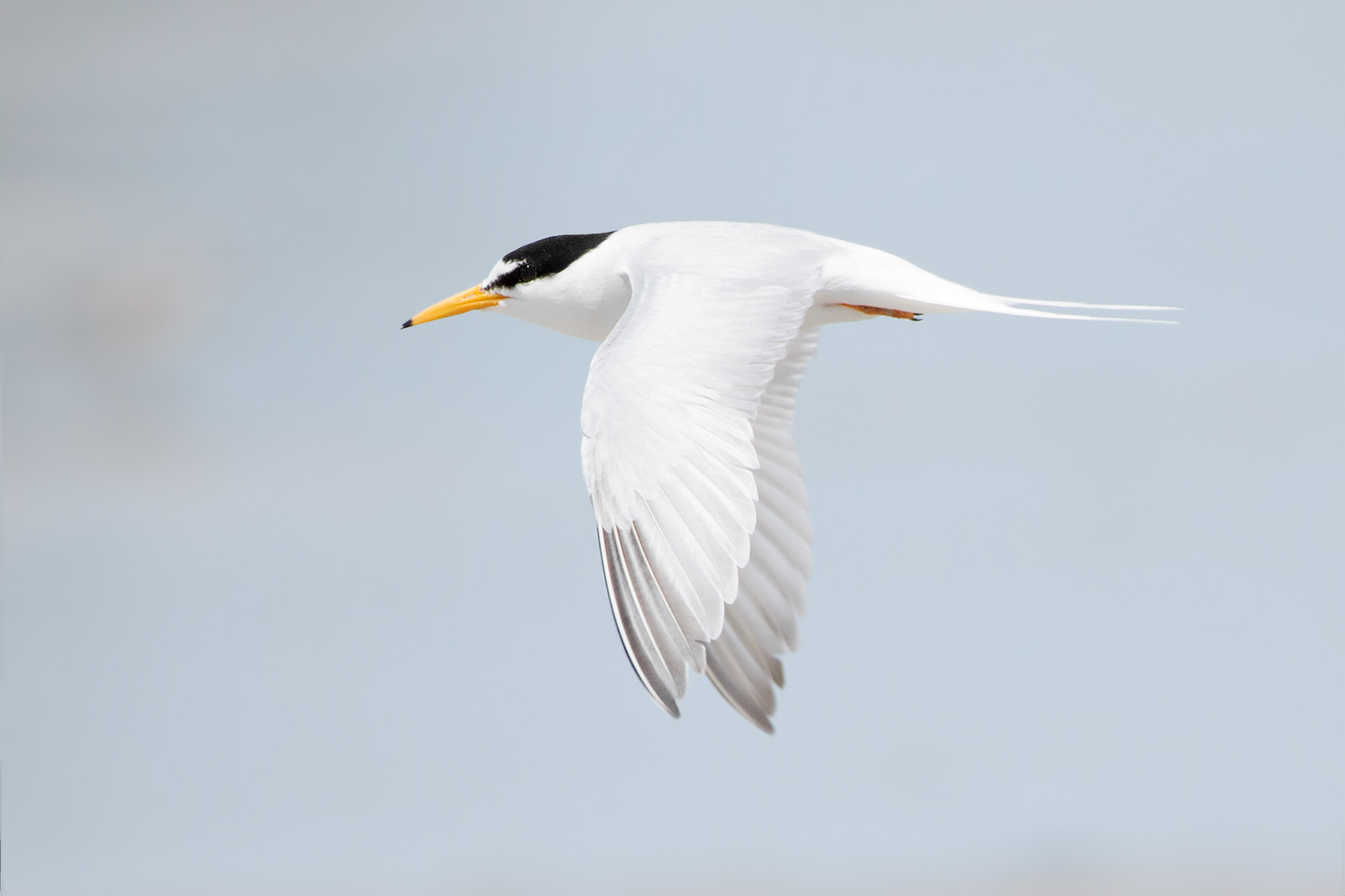 Little Tern (Sternula albifrons), Little Swanport, Tasmania, Australia